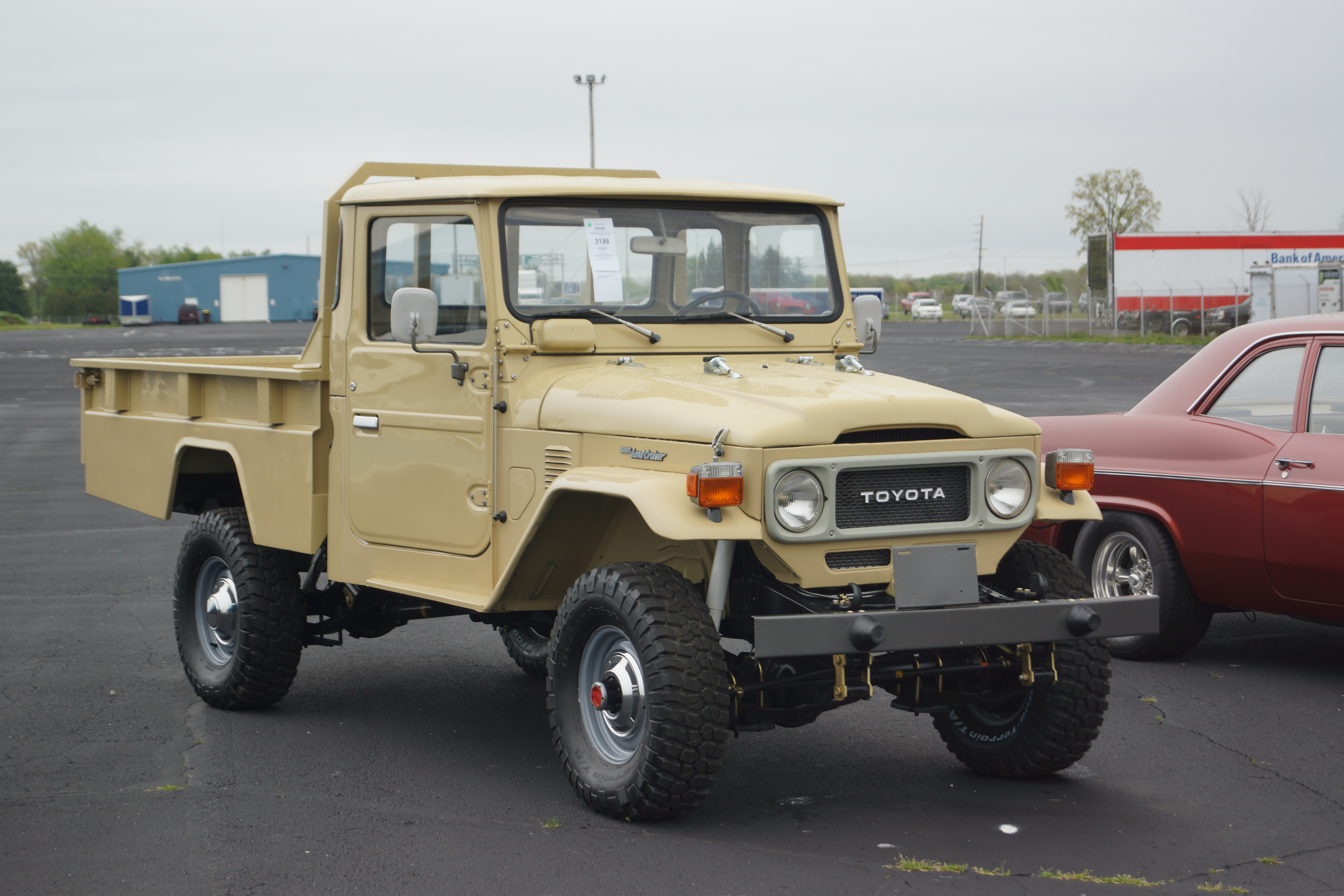 Auburn Spring RM Sotheby's Auctions America Auburn Auction Park Auburn, Indiana May 2017 Click here for more car pictures at my Flickr site. Or here for my Car Crazy Tumblr site. Or on Twitter @DVS1mn.